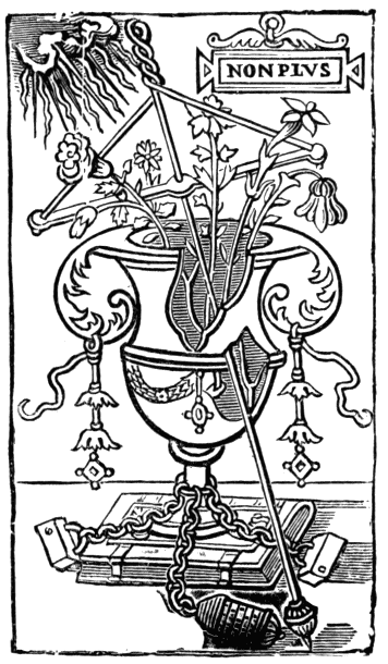 Le Pot-cassé, device of Geoffroy Tory.